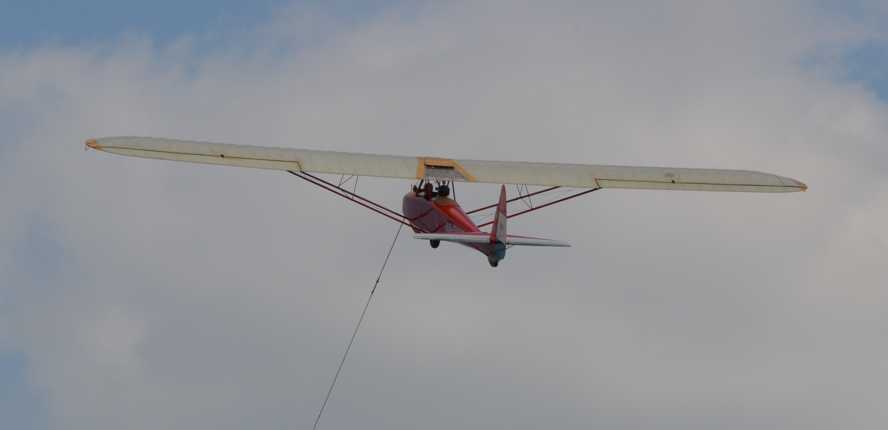 Rubik R-11b Cimbora glider (Budaörs airfield)